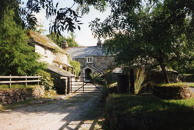 Blisland: Trehudreth Mill. Seen from the lane by the entrance. In 1893 J H Lang was listed as miller here in the local trade directory. The property is now a private residence